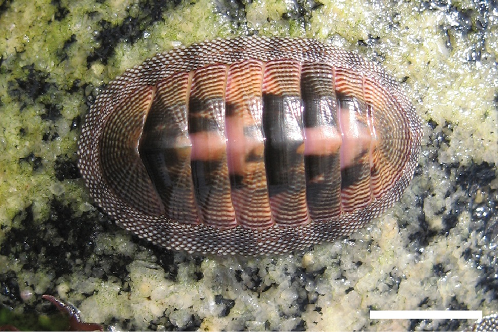 Chiton cumingsii, Playa El Pulpo, Chile. Scale bar = 1 cm